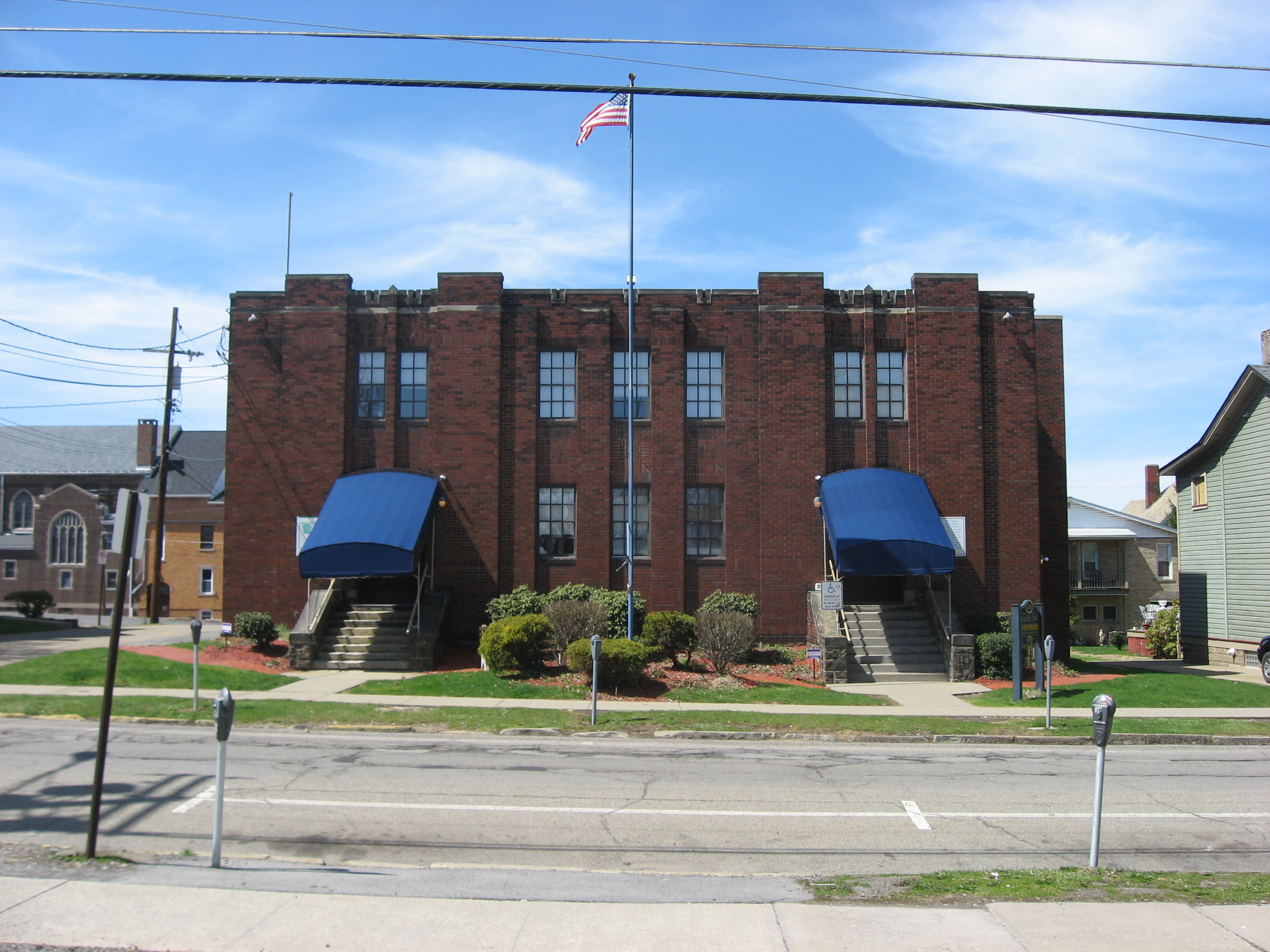 Front of the Butler Armory, located at 216 N. Washington Street in Butler, Butler County, Pennsylvania, United States. Built in 1922, the armory is listed on the National Register of Historic Places.